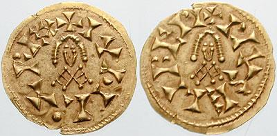 Visigoths in Spain. Judila. Circa 631-633 AD. AV Tremissis (1.42 gm). Eliberri mint. +IVDILA REX, facing bust +PIVS ELIBERI, facing bust. Cf. Miles, HNSM II 278; cf. C&C 247. EF, tiny edge crack. Judila was a usurper in Baetica, an area in southern Spain. His exact identity is uncertain, but he most likely was Geila, the brother of Suinthila. According to the acts of the 4th Council of Toledo, which are dated to 5 December, 633 AD, Geila "was excommunicated and deprived of his property because of his faithlessness to his brother and to Sisebut." This coin is only the second recorded example of Judila's coinage from the Eliberri mint. The location of the first, found in the La Capilla hoard, was not known to Miles. A unique specimen from Emerita is the only other known issue of Judila.